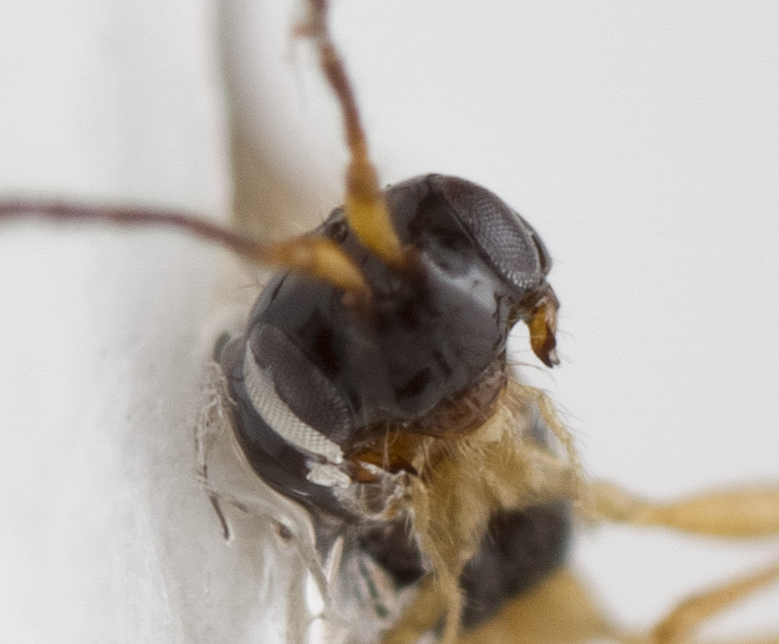 Alysiinae 1. Specimen ID: 0275. Sex: Unknown. Size: 2 mm. Collection Location: USA, WI, Bayfield County. Apostle Islands National Lake Shore. Boreal woodland along Mawike Road. WGS84 46.8874N/-91.0408W. Plot: AI-5. Collection Date: 12-Jul-2014. Collector: Brick M. Fevold. Ichneumonoidea; Braconidae; Alysiinae type #1. Broad face with small mandibles that don’t touch in the middle. Face close-up showing space between splayed mandibles.